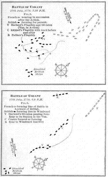 Battle of Ushant (1778) Fig. 2-3. 2:30 pm & 6:00 pm